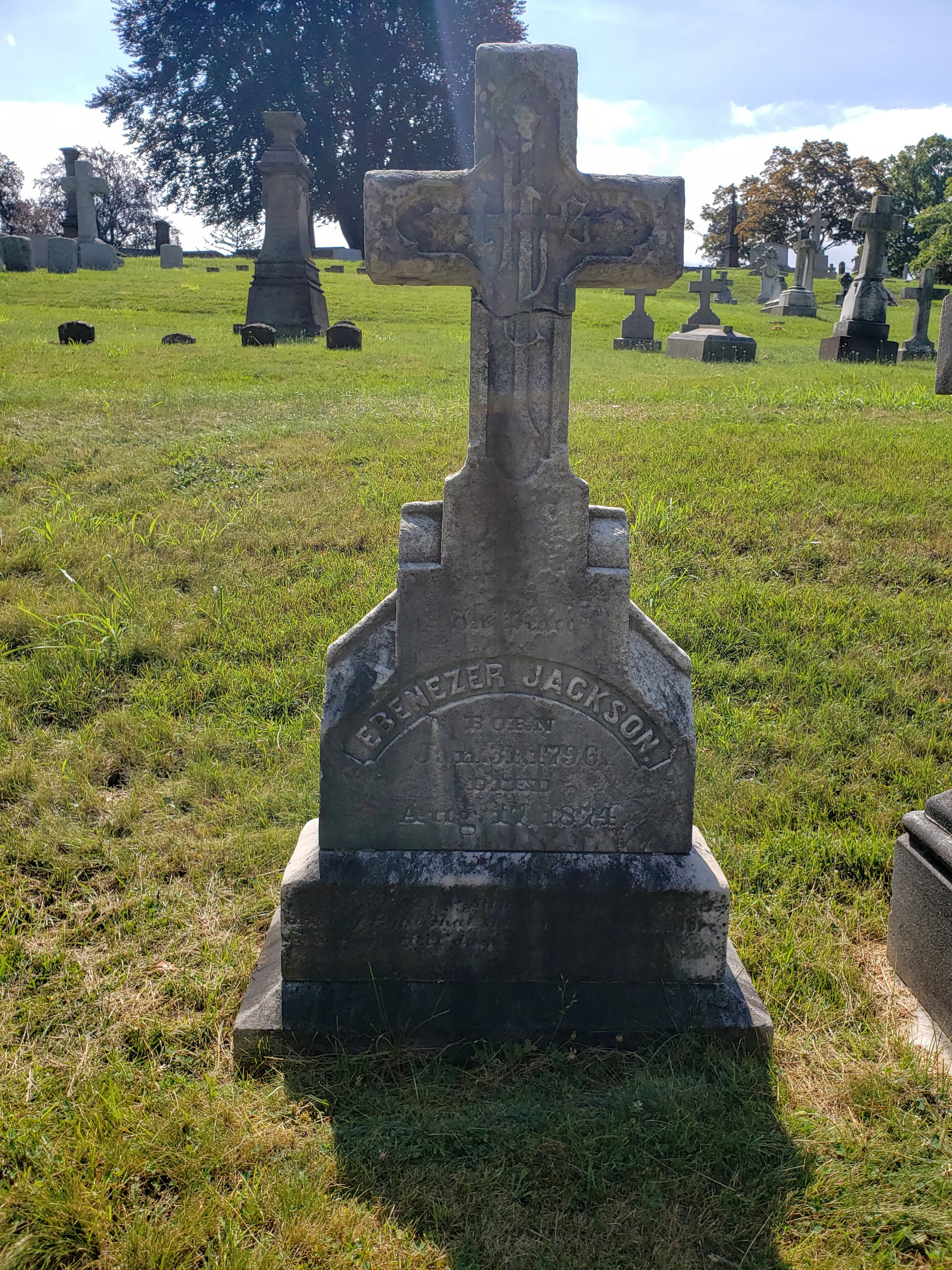 Ebenezer Jackson, Jr. Gravestone in Indian Hill Cemetery in Middletown, Connecticut. Photo taken July 2019.